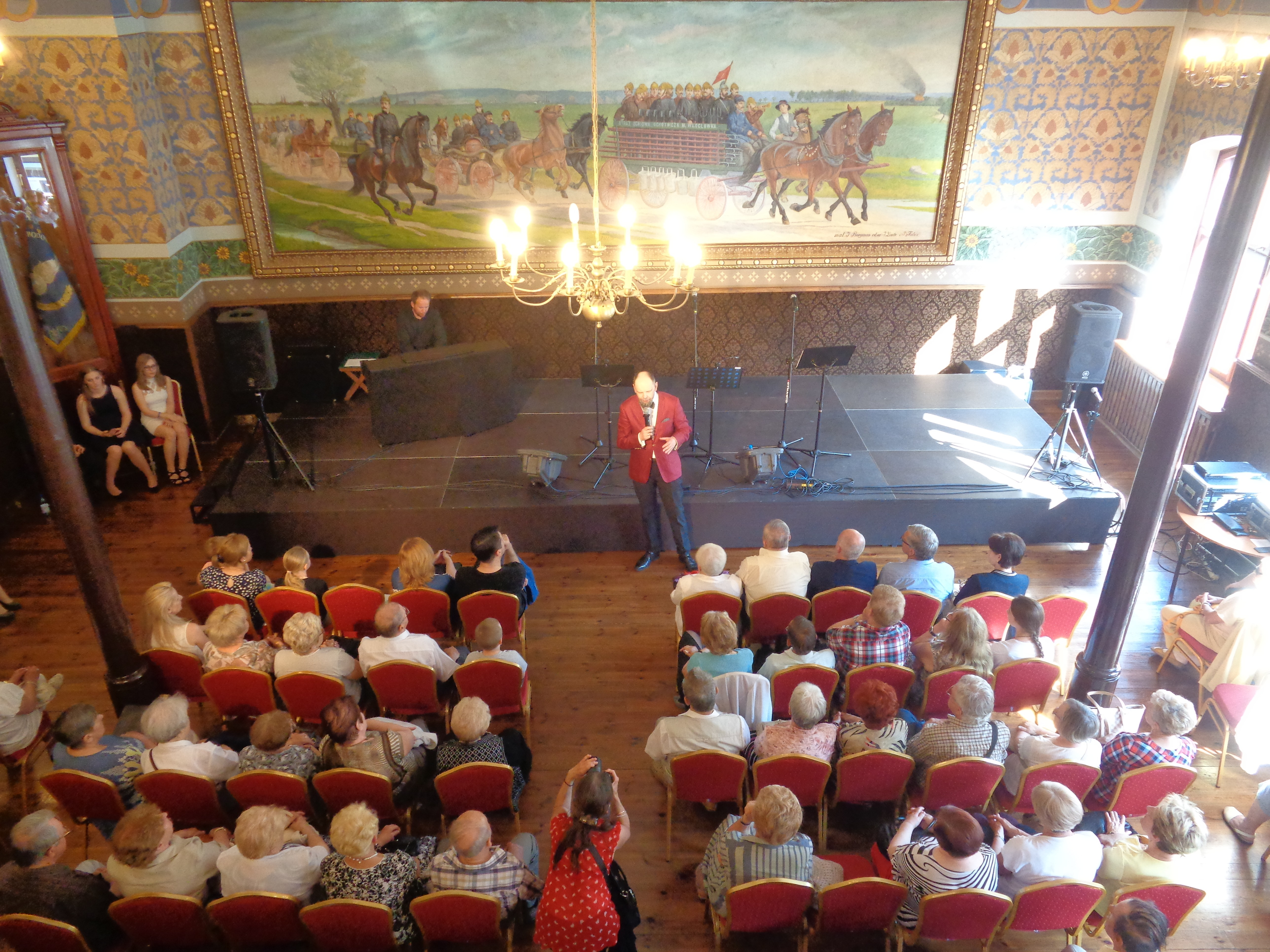 Speech before concert "Witaj, majowa Jutrzenko" ("Welcome, may morning") in The Old Fire Station Club (Klub Stara Remiza) in Włocławek in occasion of 227'th anniversary of 3rd May Constitution.